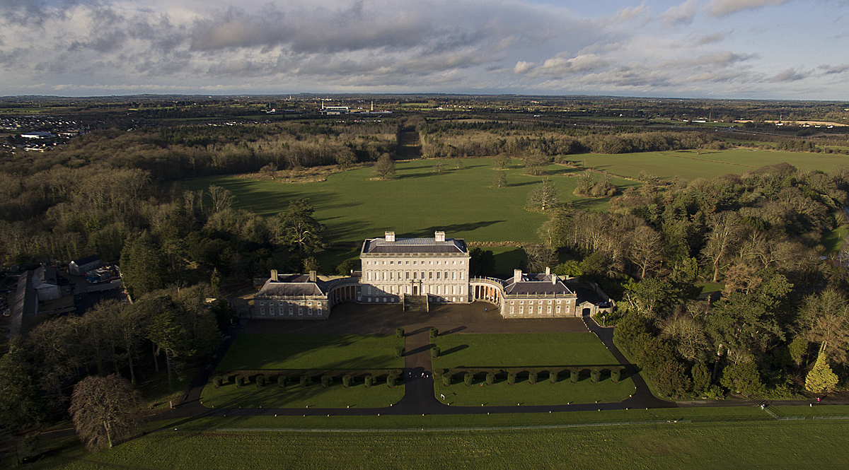 Celbridge Castle Ireland